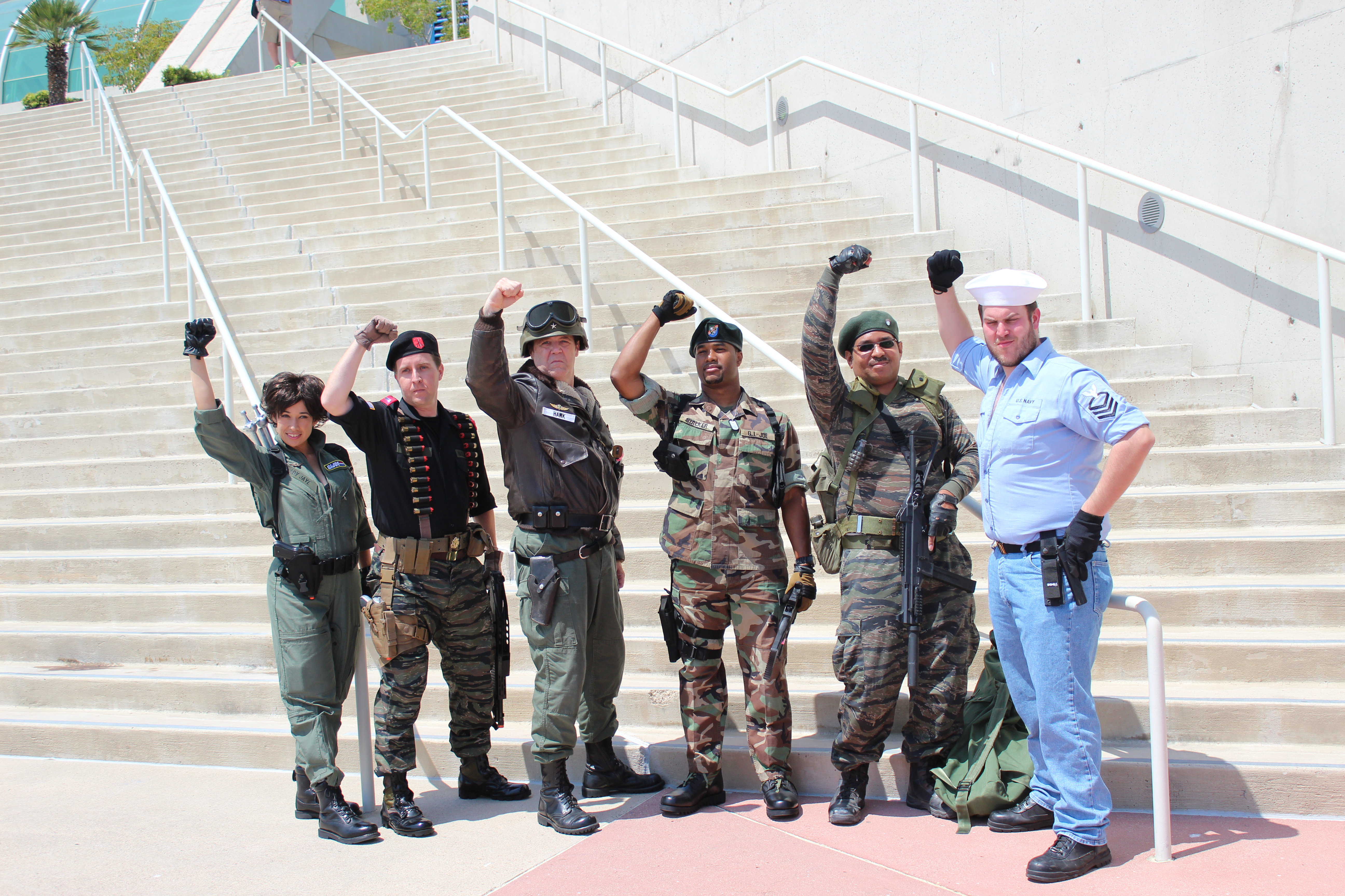 Cosplay at San Diego Comic-Con (SDCC 2012).